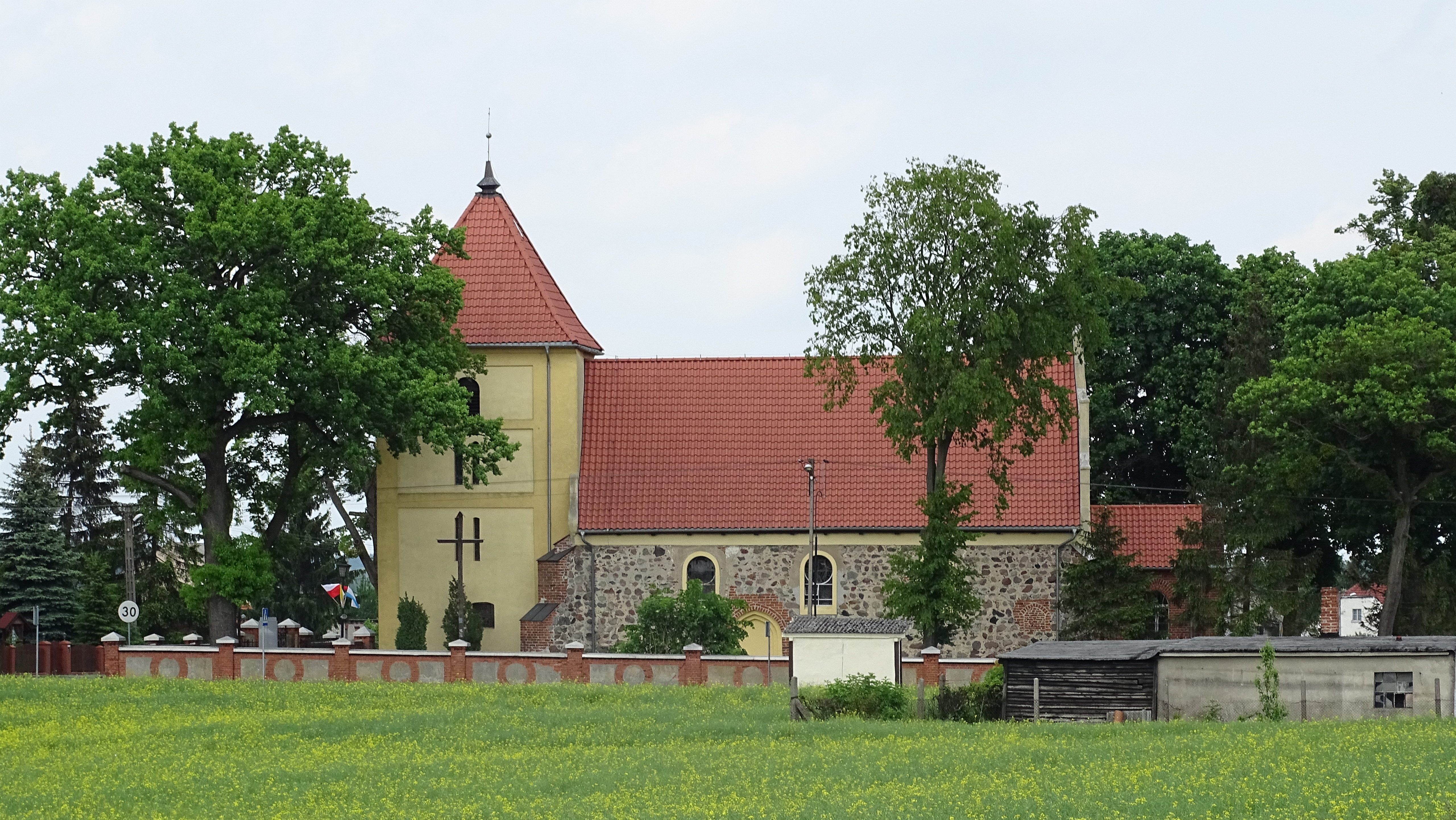 Rogóźno, Grudziądz county, Poland. Church of Saint Adalbert built in the first half of the 14th century.